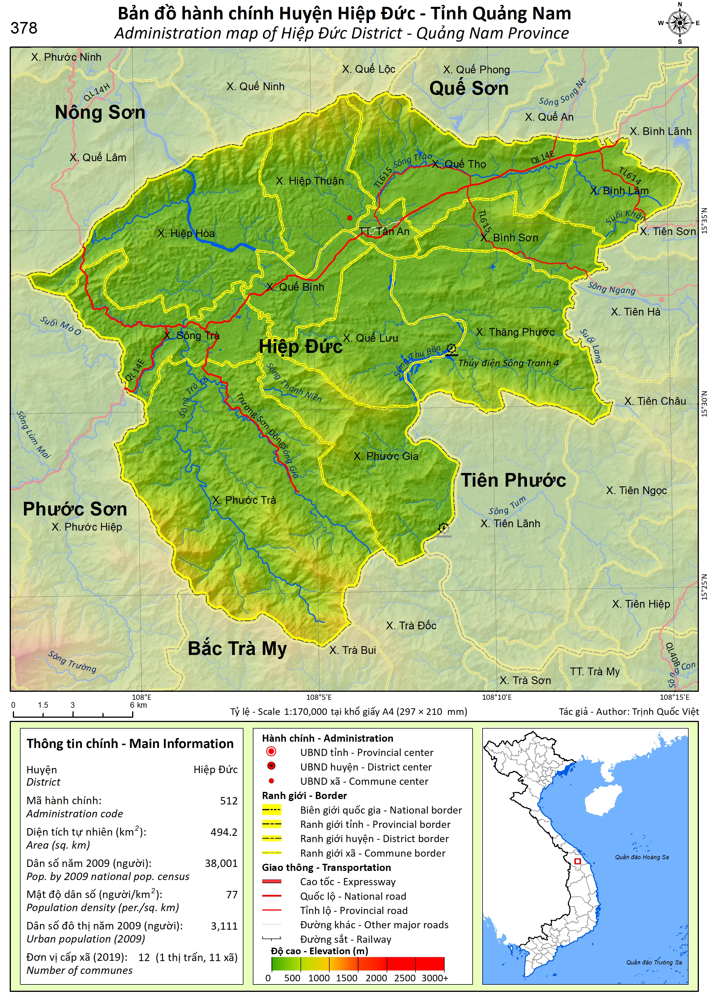 Administration map of Hiep Duc District, Quangnam Province